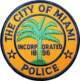 Patch of the Miami Police Department